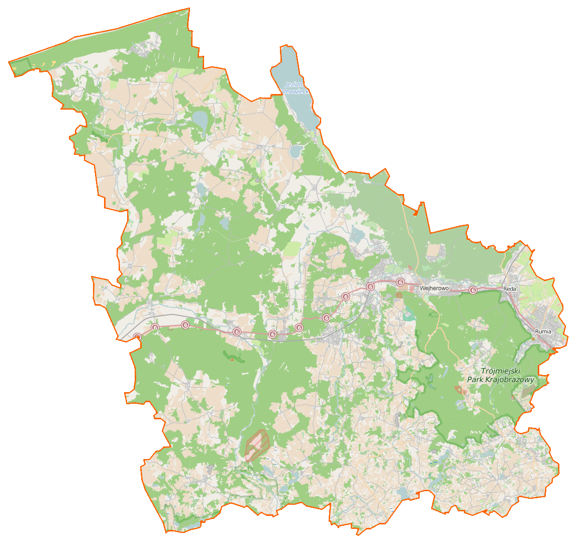 Map of Powiat wejherowski, Poland This map of Powiat wejherowski was created from OpenStreetMap project data, collected by the community. This map may be incomplete, and may contain errors. Don't rely solely on it for navigation.